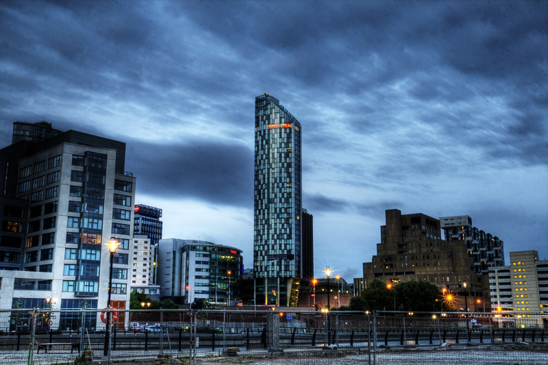 West Tower, Liverpool, England seen at night. 1 Princes Dock can also be seen to the left of the tower with the Royal & SunAlliance Building (RSA Insurance Group) and Unity Complex to the right.